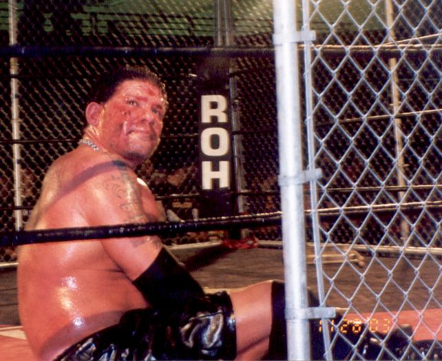 Professional wrestler Raven (real name Scott Levy) sitting inside a steel cage at a Ring of Honor show in August 2007.